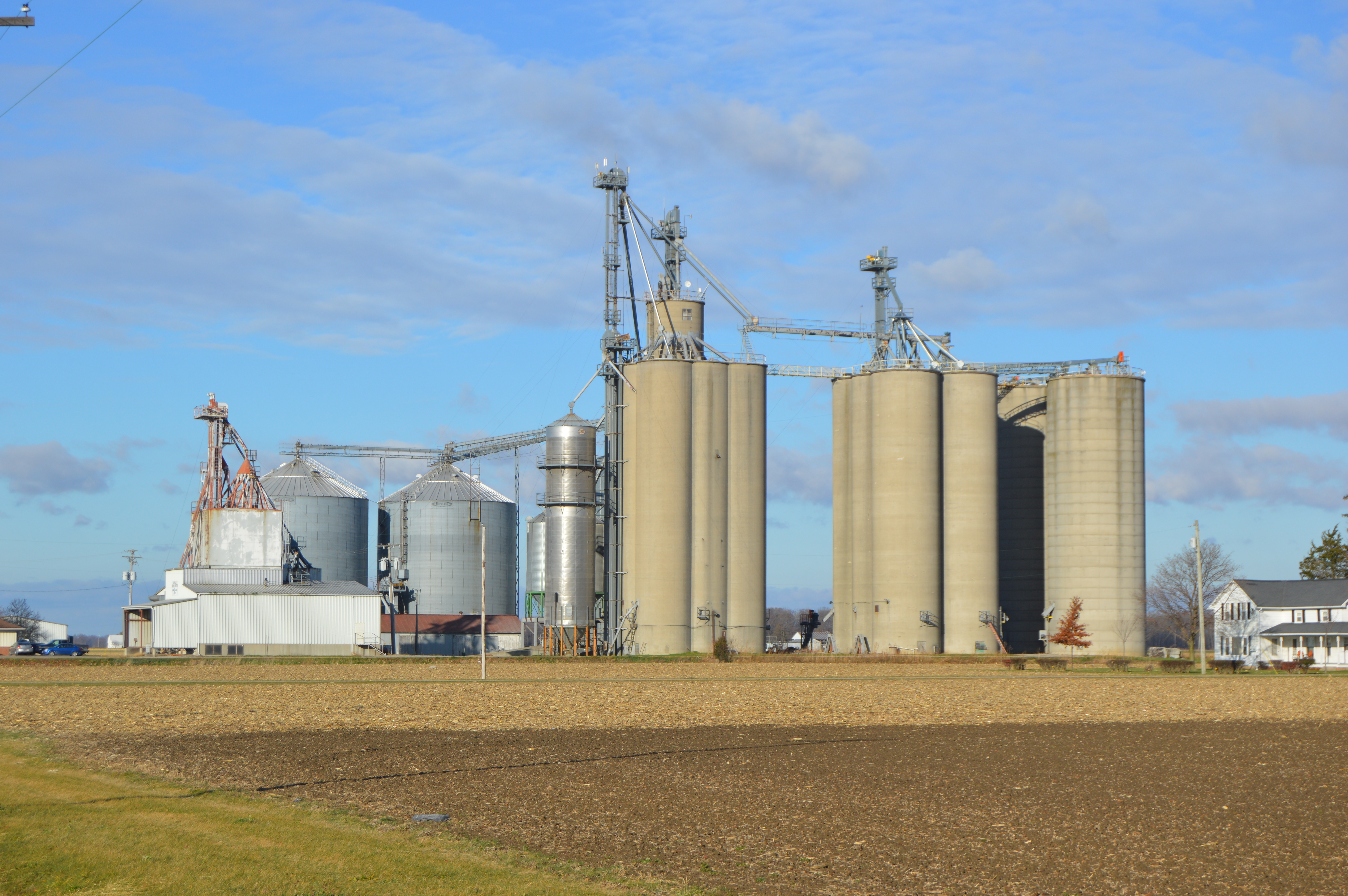 View from the east of the Gerald Grain Center, located on the northern side of Road U at Gerald in Freedom Township, Henry County, Ohio, United States.